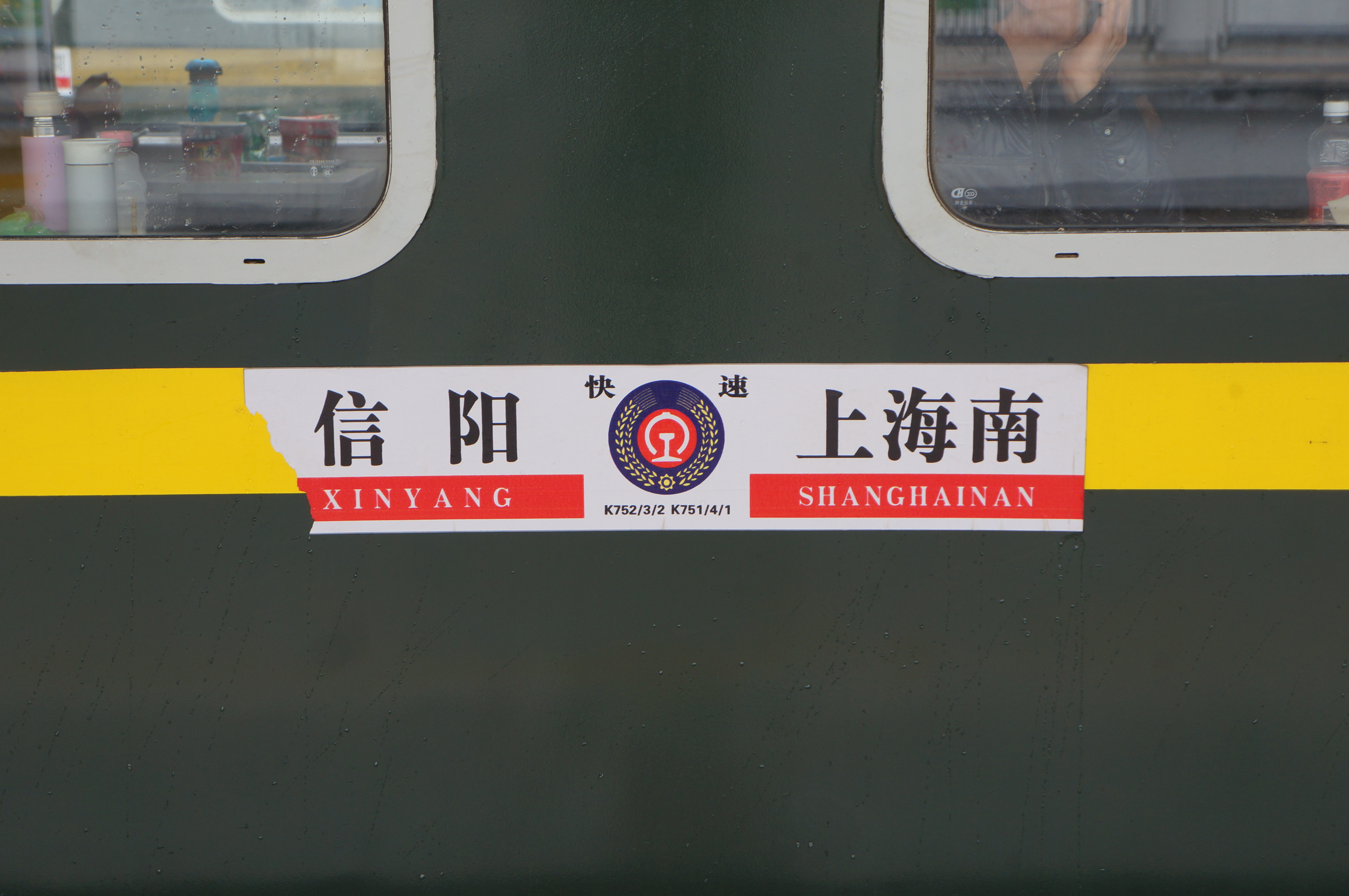 Xinyang to Shanghainan